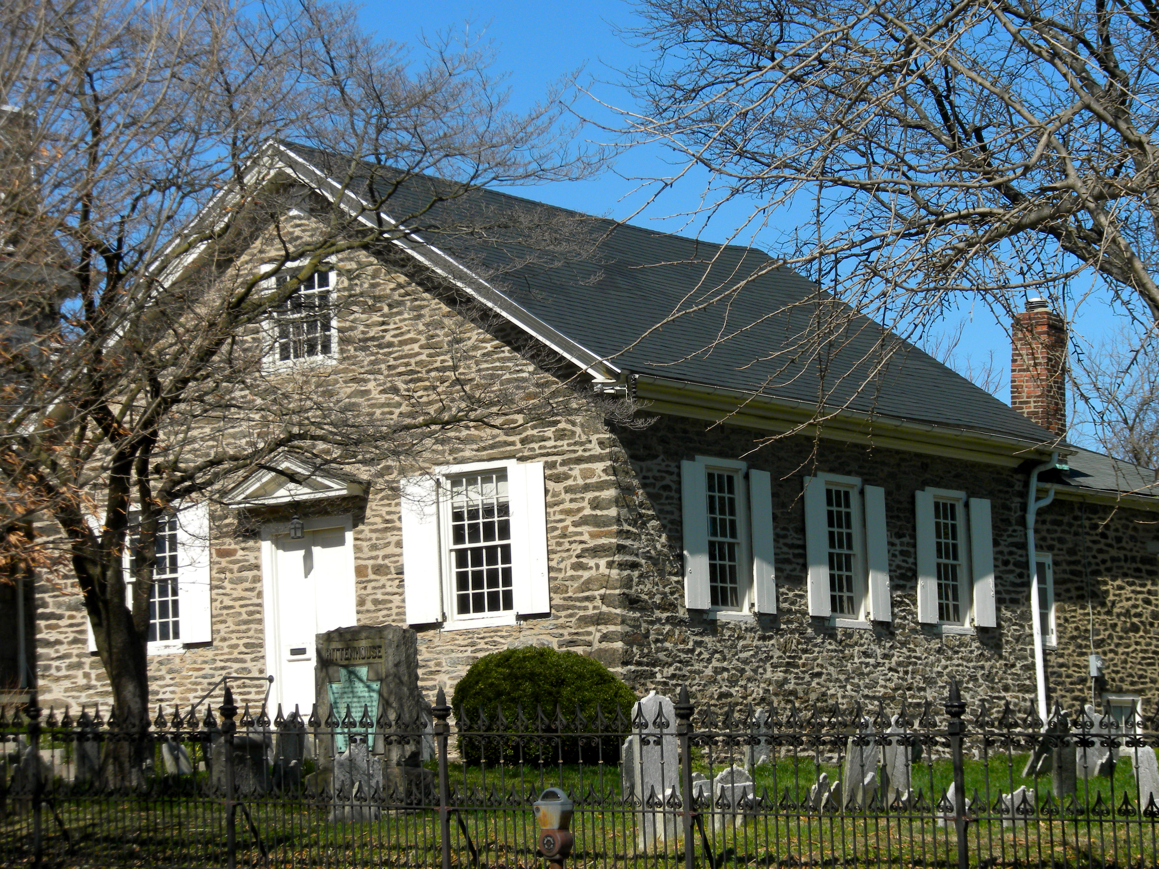 Germantown Mennonite Meeting House, built 1700. On the NRHP since July 23, 1973. At 6119 Germantown Avenue.